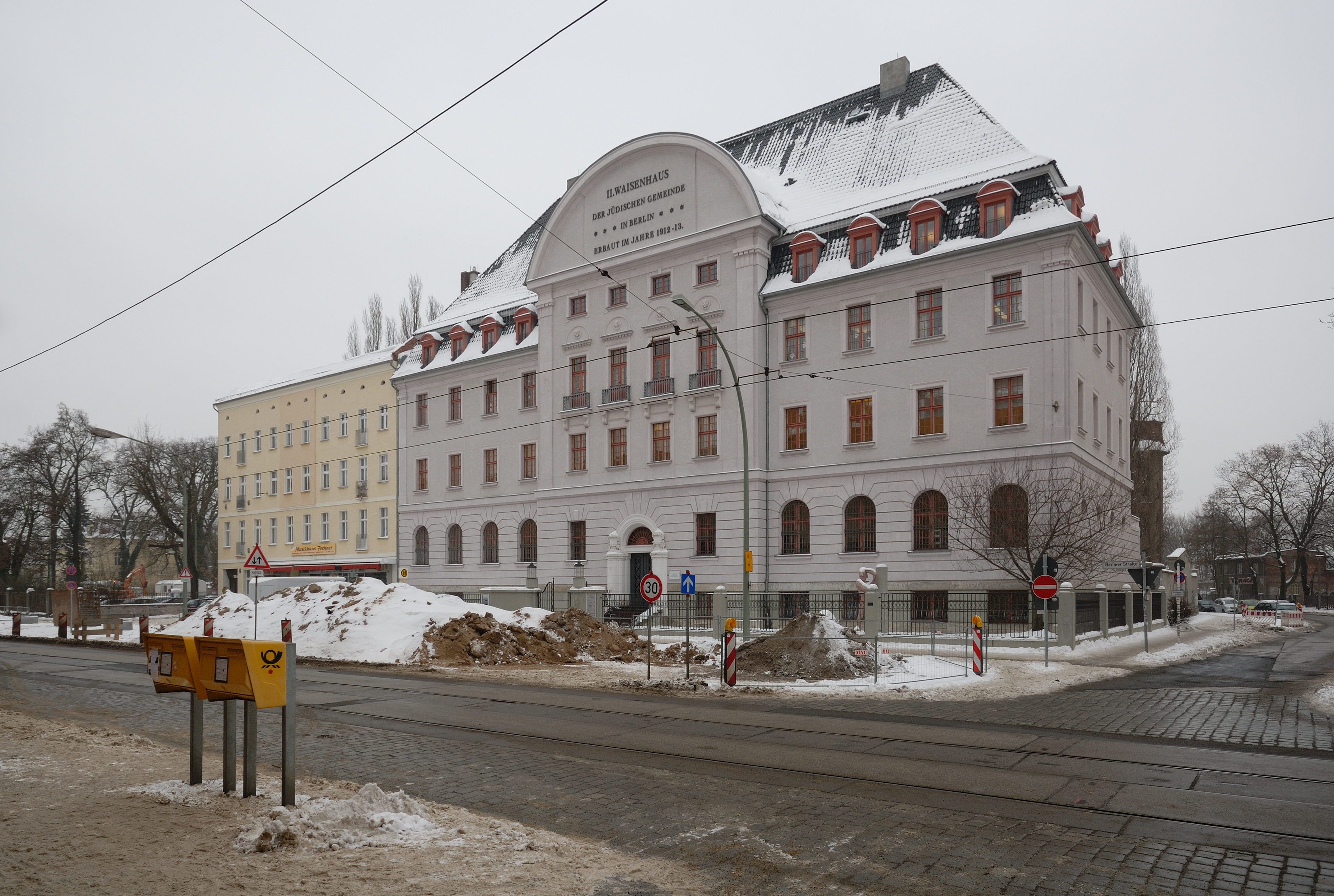 Second orphanage of the Jewish community in Berlin-Pankow.